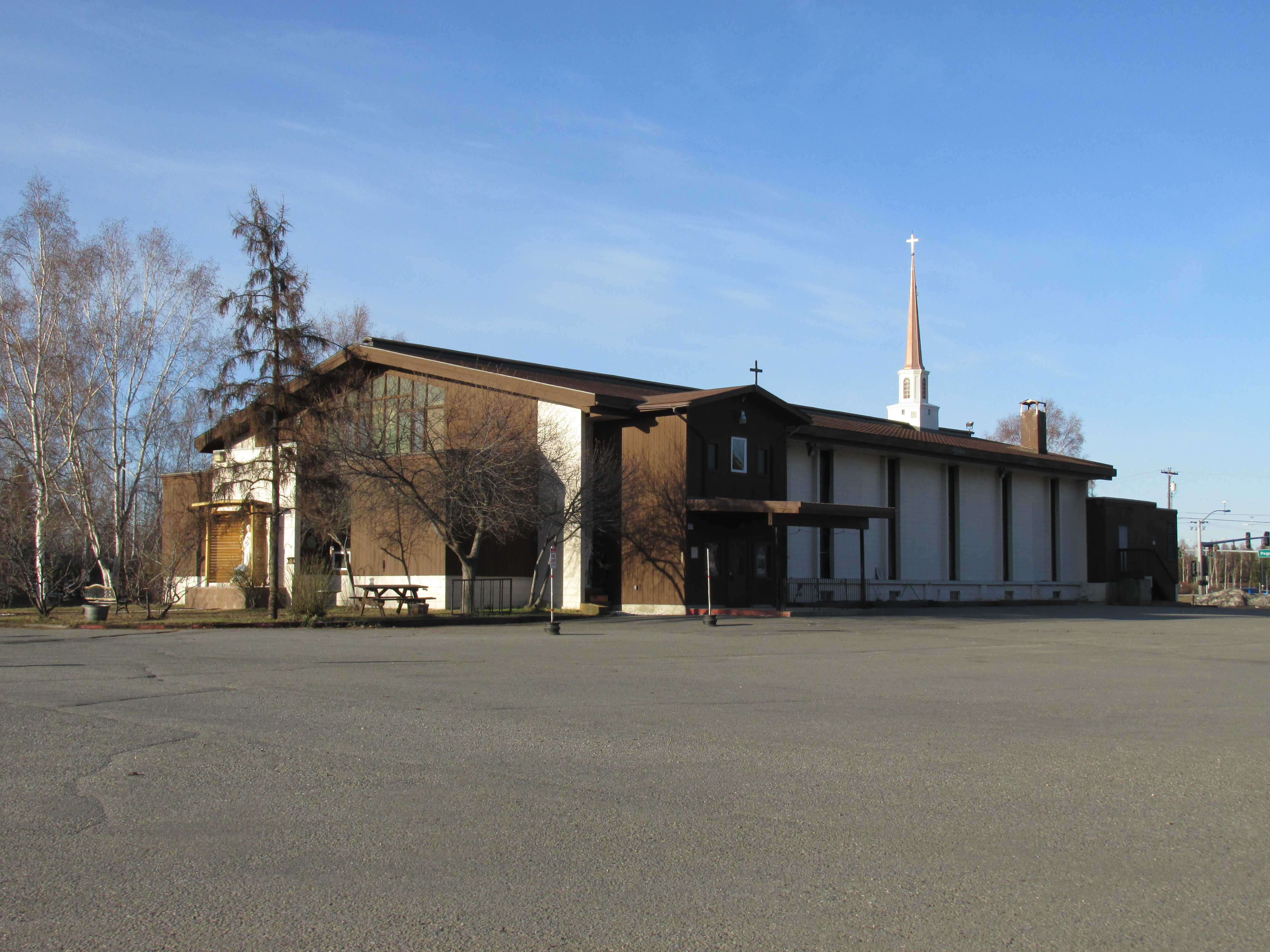 Sacred Heart Cathedral in Fairbanks, Alaska, taken from the parking lot. This, in a sense, shows the building from the rear, though a much better shot than if it would have been taken from the street.